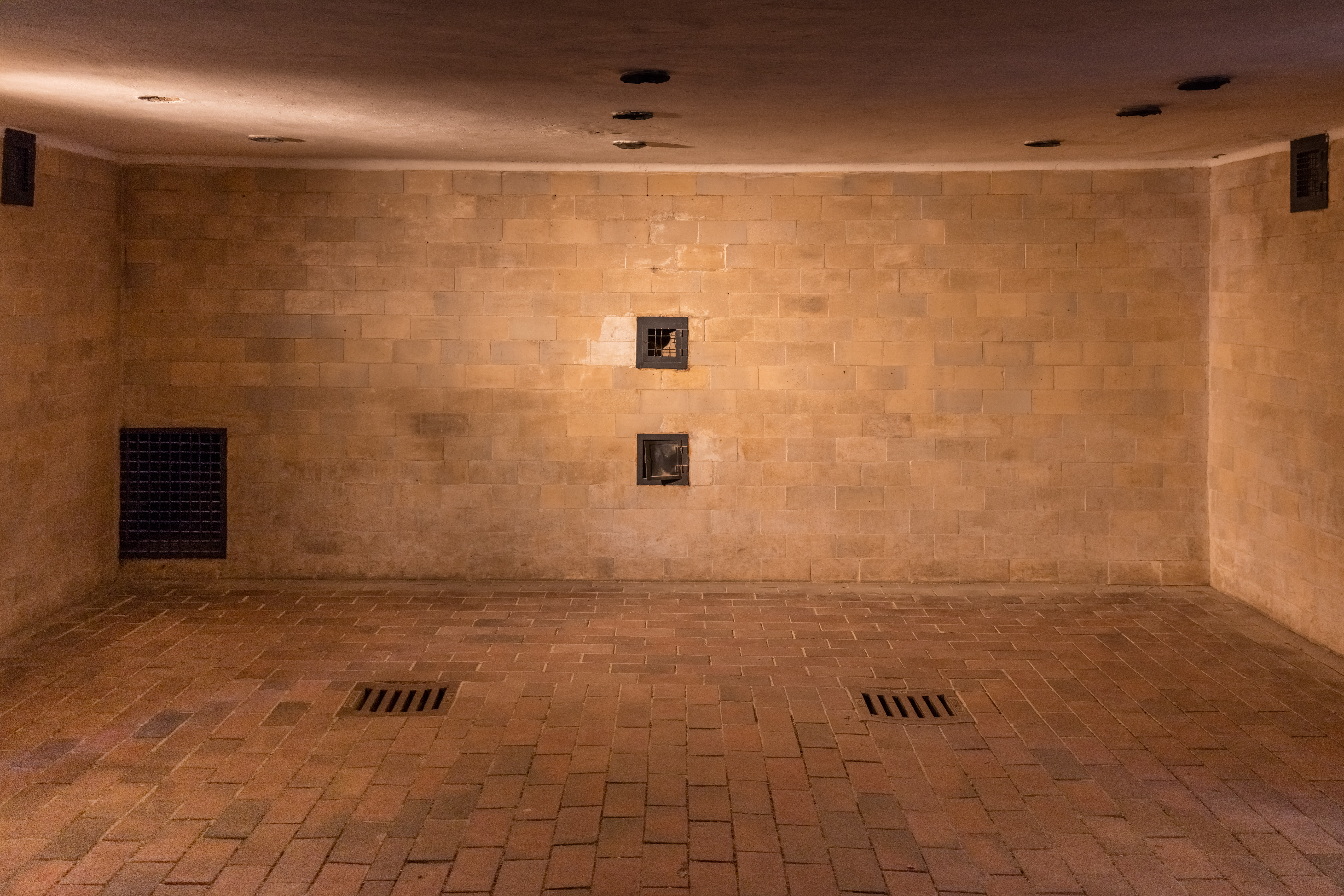 Gas chamber, new crematorium, concentration camp of Dachau, Germany